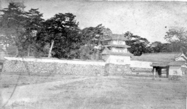 Himeji Castle old photo (taken about Meiji year)